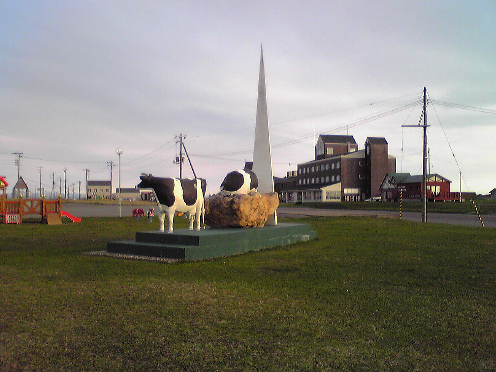 Sarufutsu Park, Roadside Station, Hokkaido, Japan.